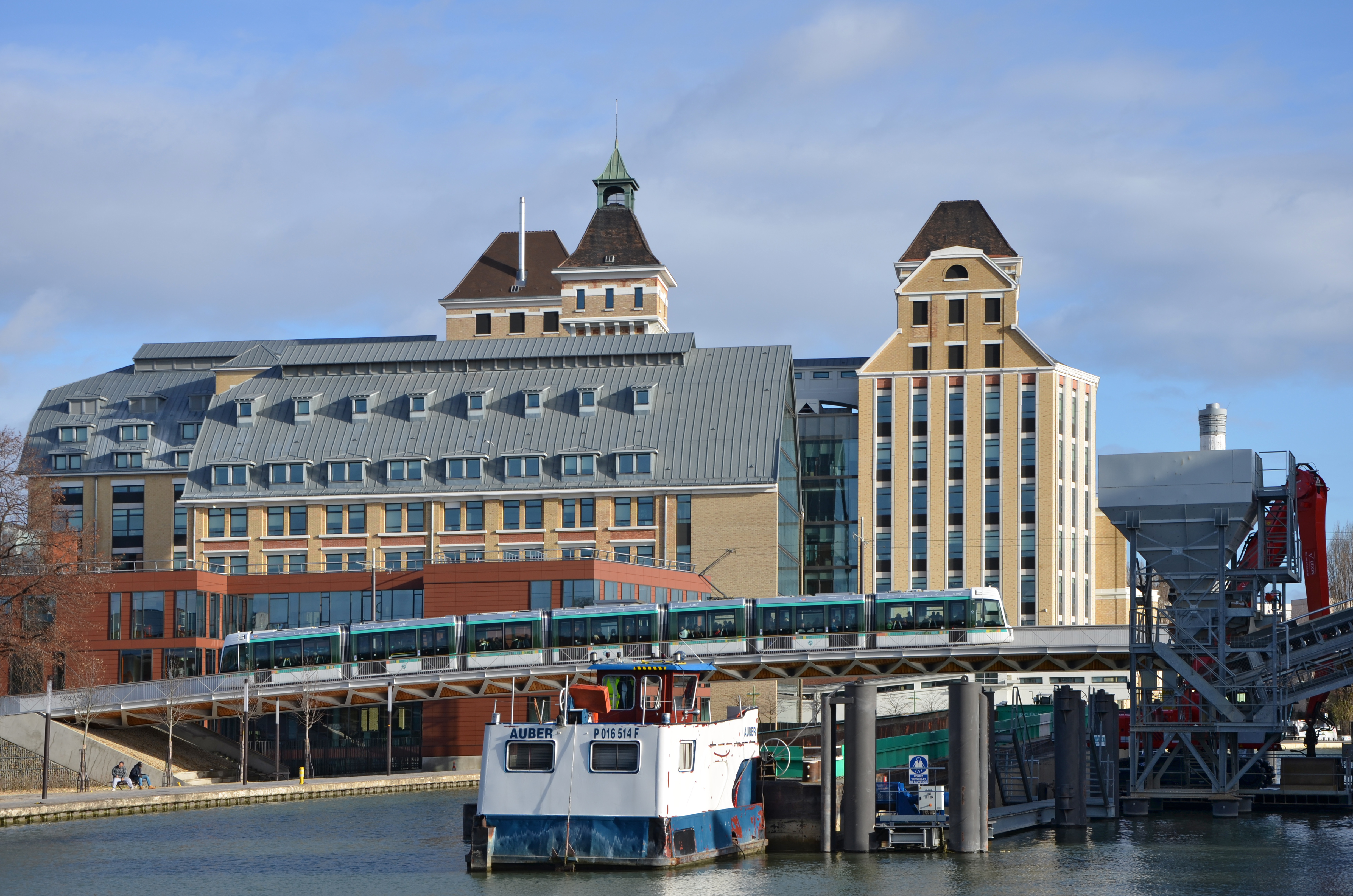 Tramway line T3b crosses canal de l'Ourcq near Paris, France